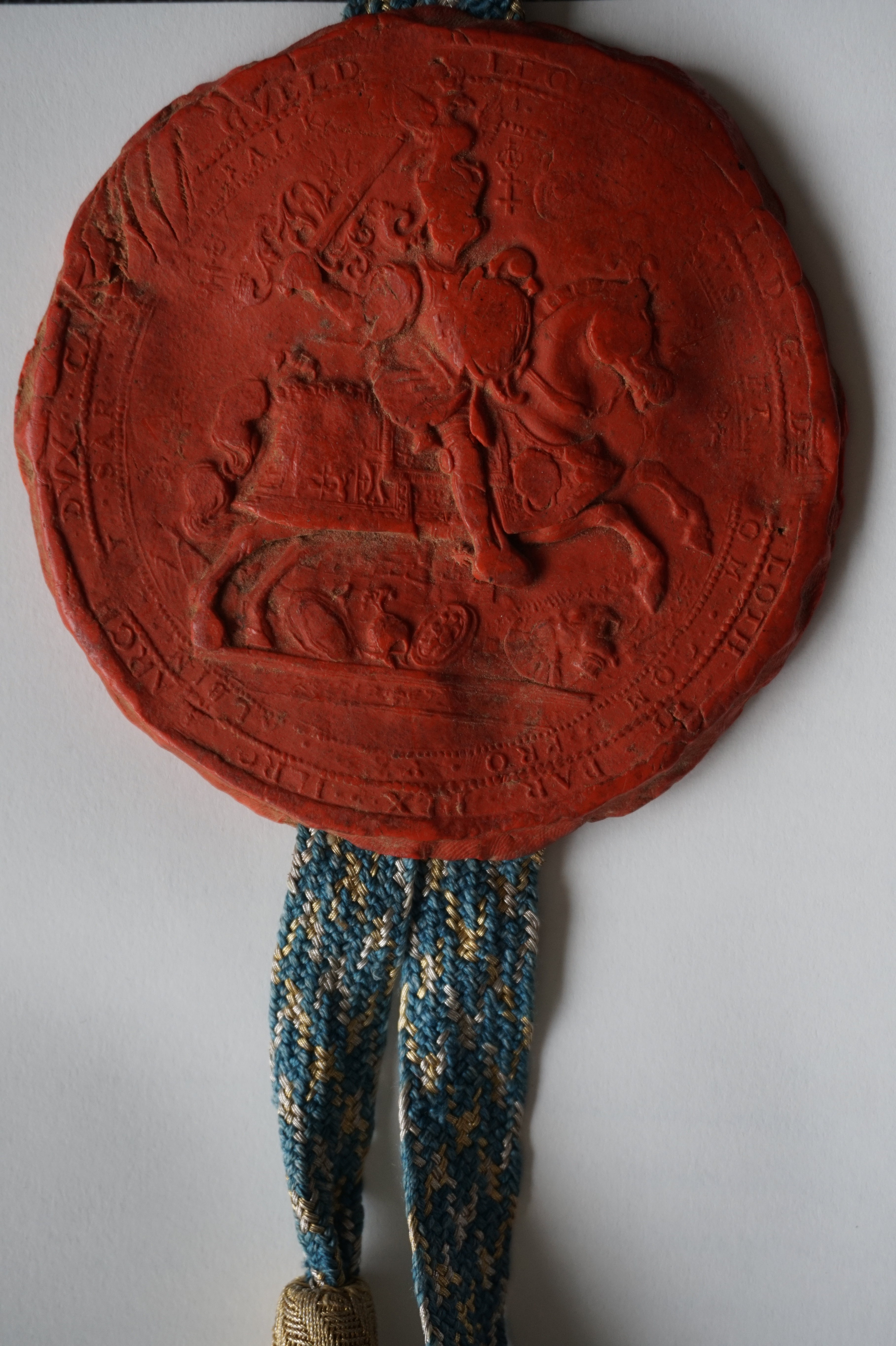 Great Seal of Lorraine - Leopold I. 1712.